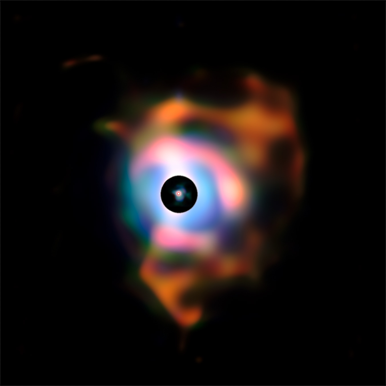 This picture of the dramatic nebula around the bright red supergiant star Betelgeuse was created from images taken with the VISIR infrared camera on ESO’s Very Large Telescope (VLT). This structure, resembling flames emanating from the star, forms because the behemoth is shedding its material into space. The earlier NACO observations of the plumes are reproduced in the central disc. The small red circle in the middle has a diameter about four and half times that of the Earth’s orbit and represents the location of Betelgeuse’s visible surface. The black disc corresponds to a very bright part of the image that was masked to allow the fainter nebula to be seen.